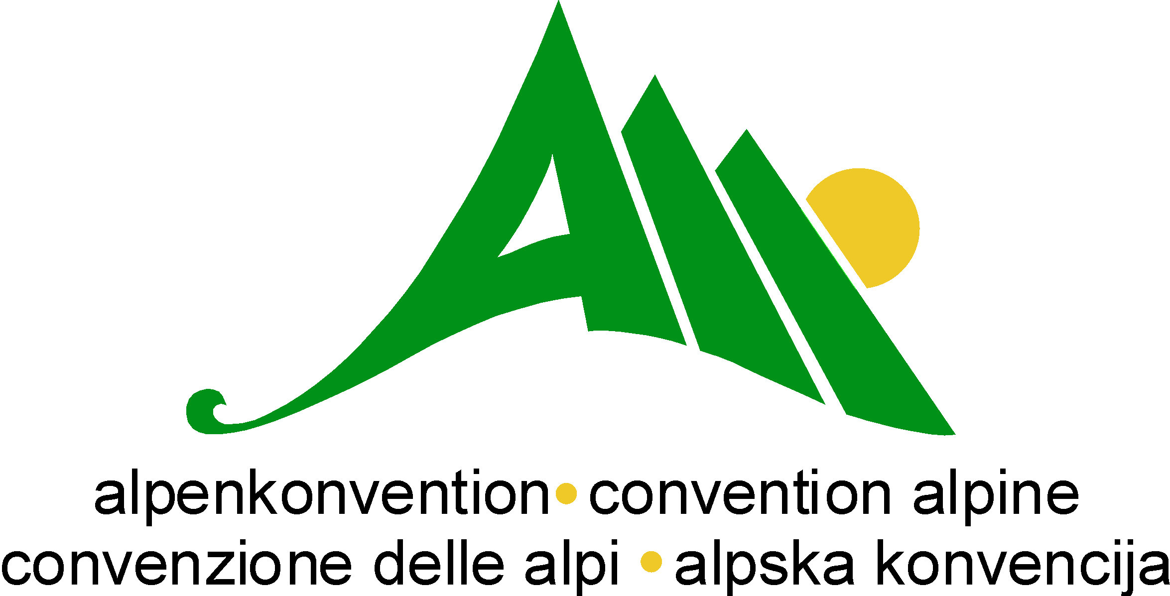 Alpine Convention logo